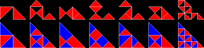 A series of rep-tiles created by permutating sub-copies of an isosceles right triangle